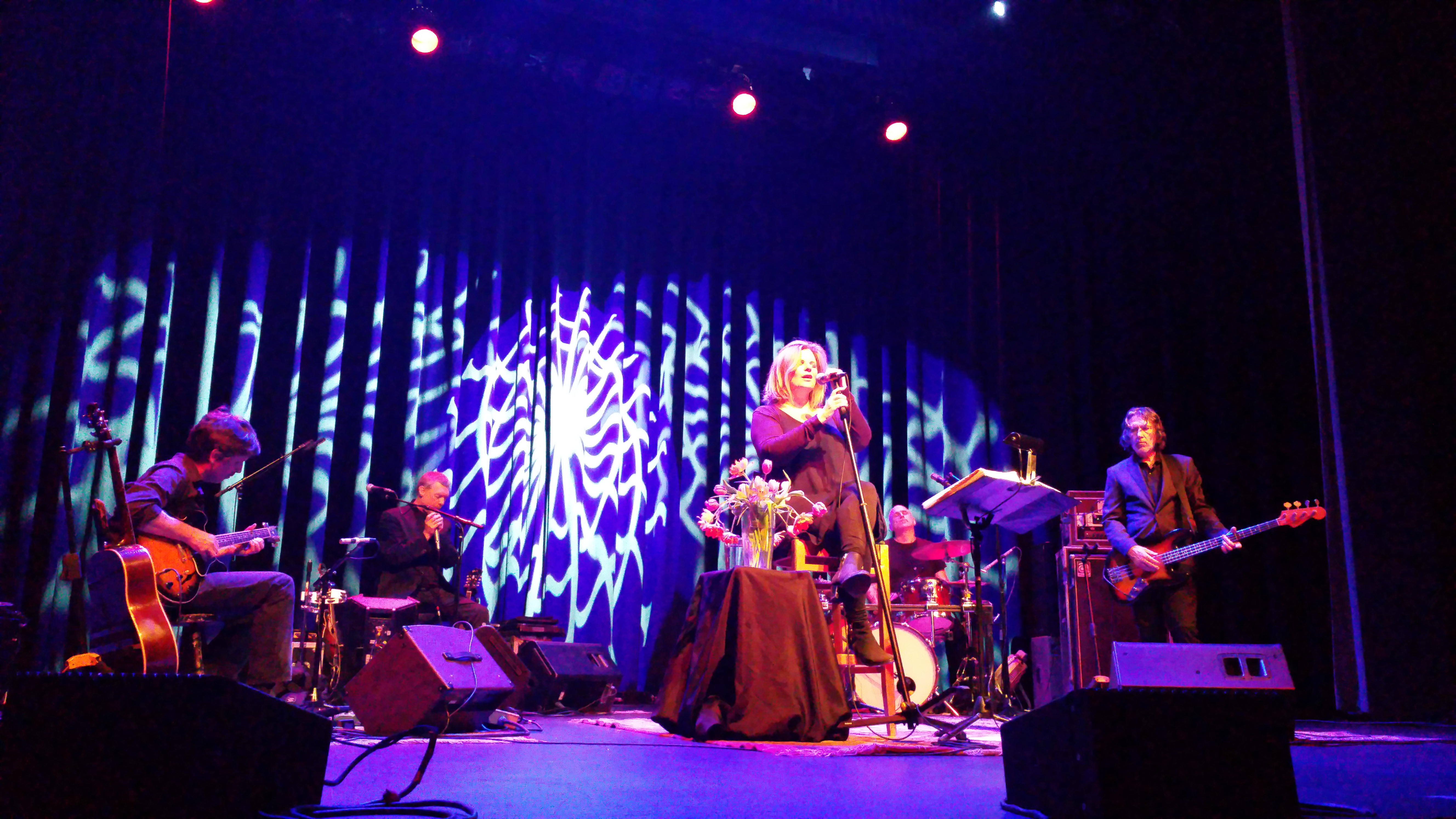 Cowboy Junkies 2015-10-02